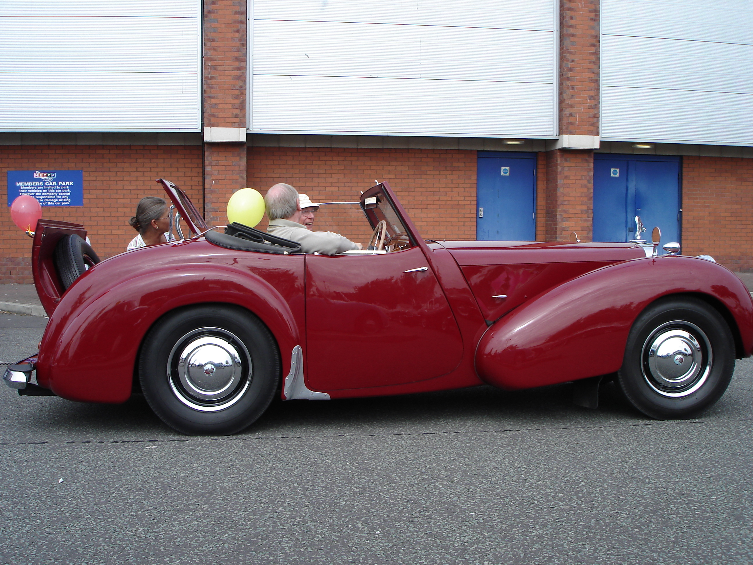 side view of Triumph Roadster 1800 taken by myself